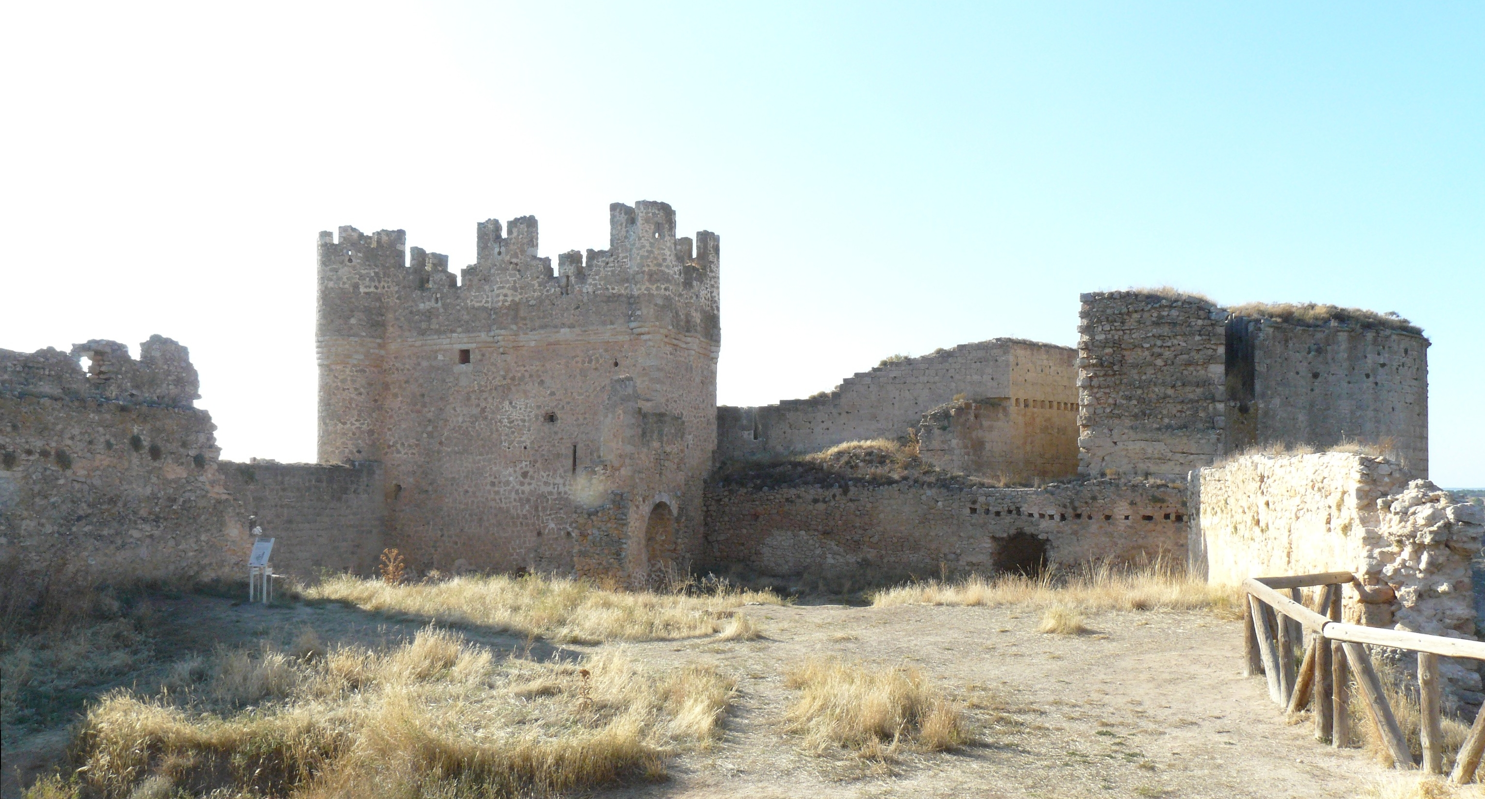 Main tower of the old castle at Berlanga de Duero, Soria (Spain) and courtyard.